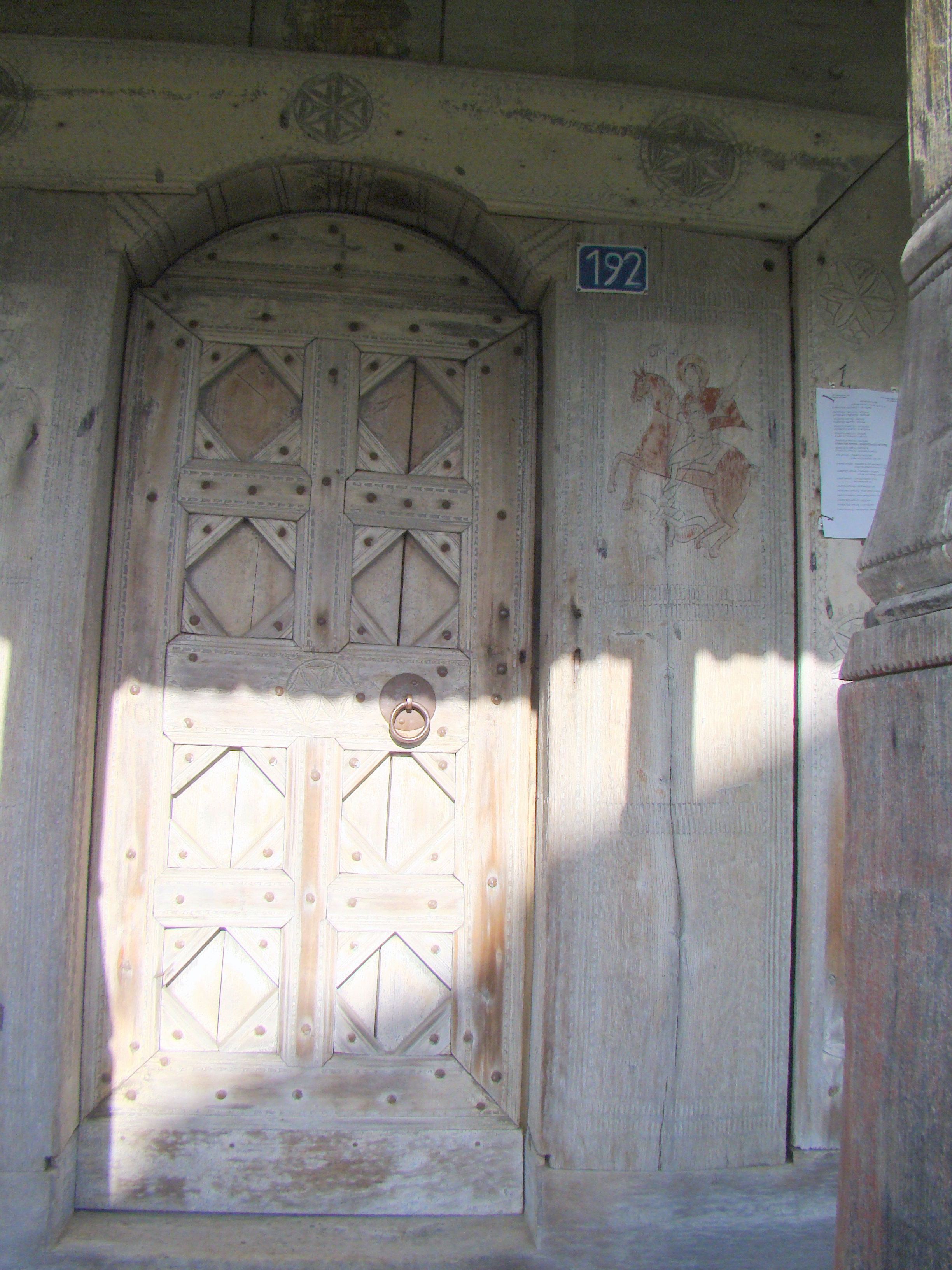 Wooden church in Negomir, Gorj county, Romania